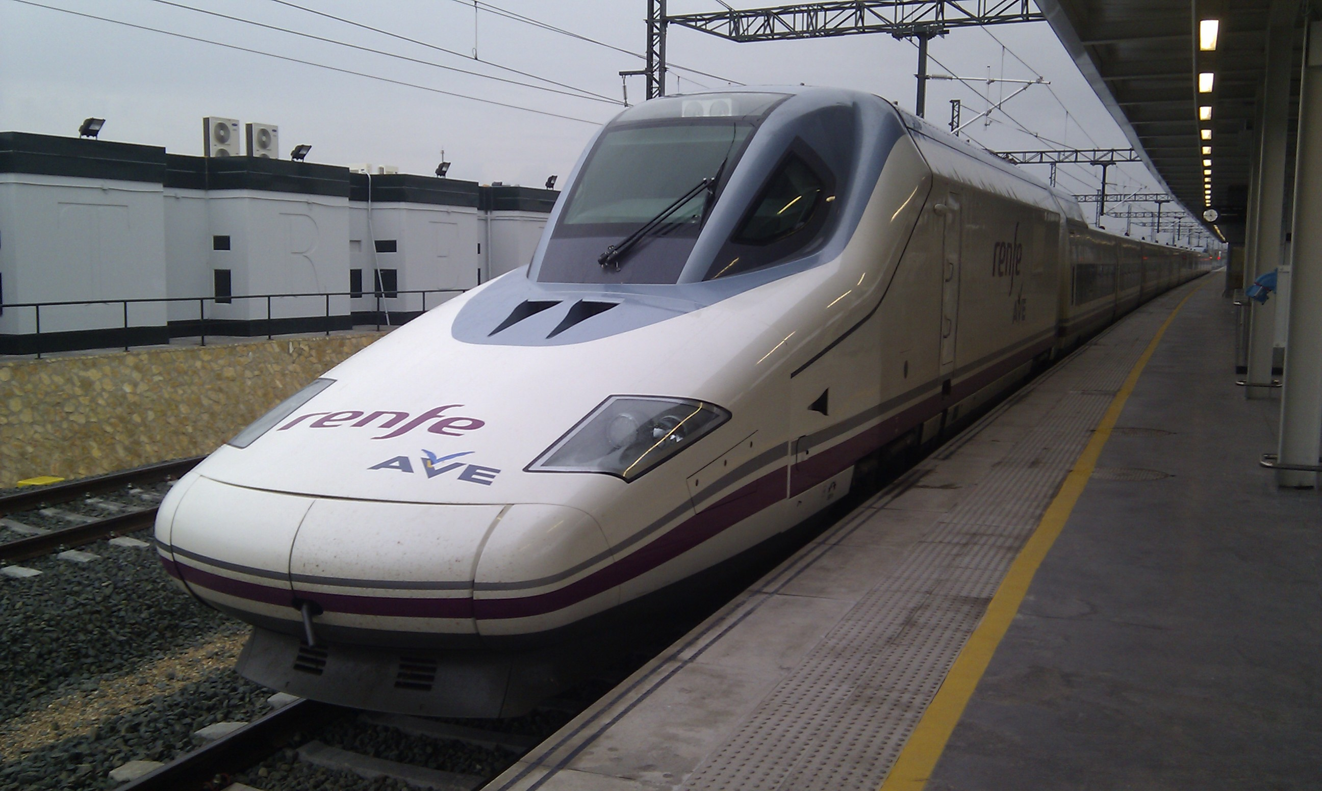 112 series locomotive of Renfe at Albacete Los Llanos station